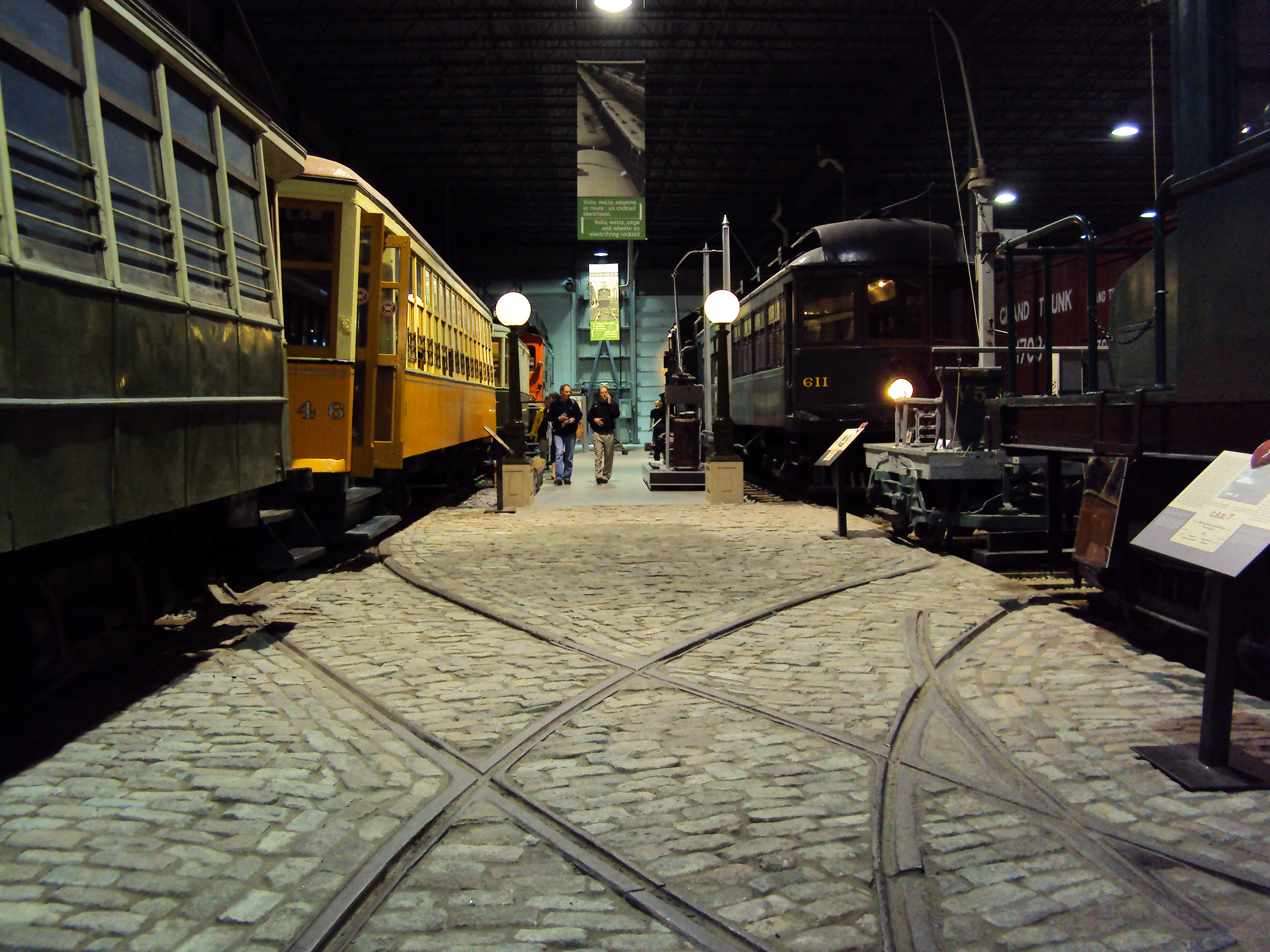 Tramway section of the Canadian Railway Museum, main hall